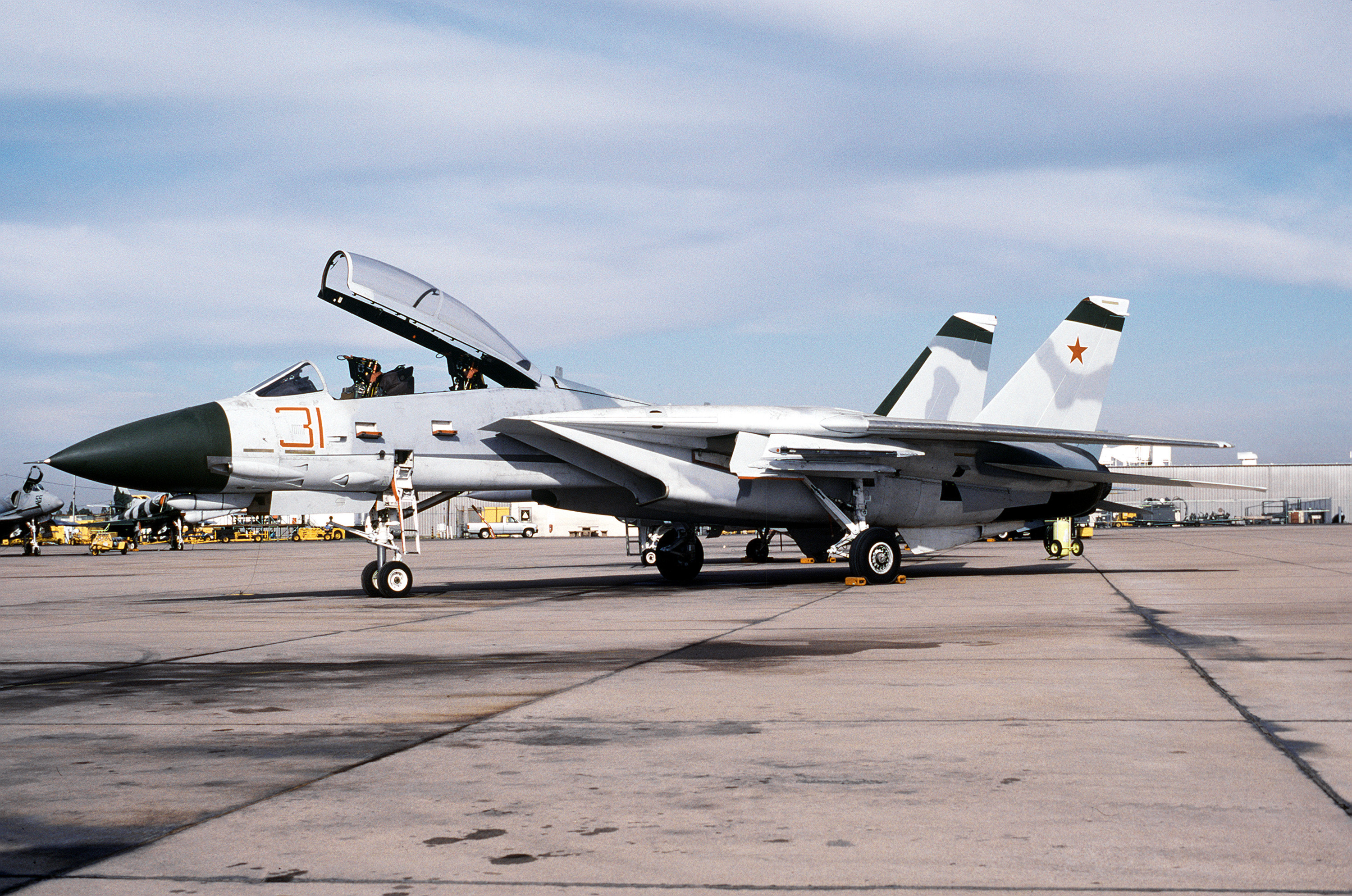 A U.S. Navy Grumman F-14A-90-GR Tomcat (BuNo 159855) of Fighter Squadron VF-126 "Bandits" at Naval Air Station Miramar, California (USA), in 1991.